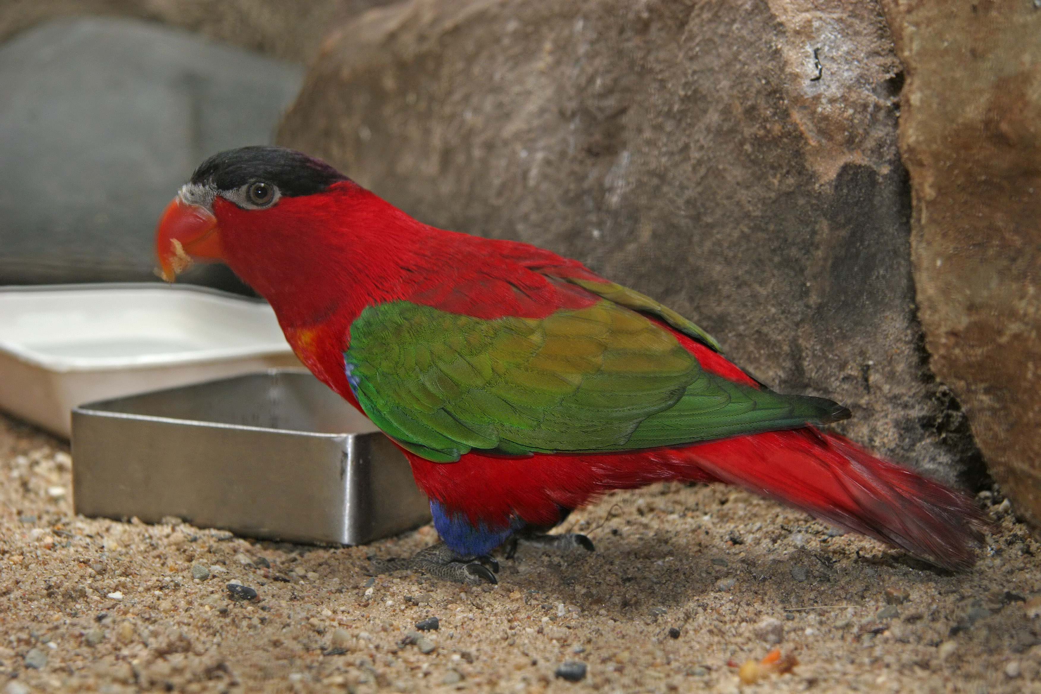 A Purple-naped Lory at Artis Zoo, Amsterdam, Netherlands.